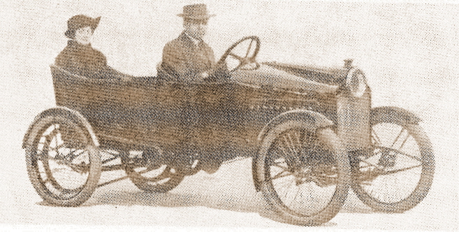 1914 Merz Cyclecar